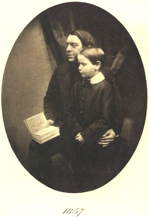 Photographic portrait (1857) of British naturalist Philip Henry Gosse (1810–1888) and his son Edmund Gosse (1849–1928).